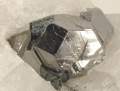 Carrollite Locality: Kamoya South II Mine (Kamoya Sud Mine; Kamoya South Mine), Kamoya, Kambove, Central area, Katanga Copper Crescent, Katanga (Shaba), Democratic Republic of Congo (Zaïre) (Locality at ) Size: 4 x 4 x 3.7 cm. A beautiful and highly lustrous Carrollite crystal that fits well into the mold of "classic" for the species and locality. This mirror-like crystal, with its incredible complex habit, measures 1.5 cm across, and is nestled in Calcite. Ex. Charlie Key stock.